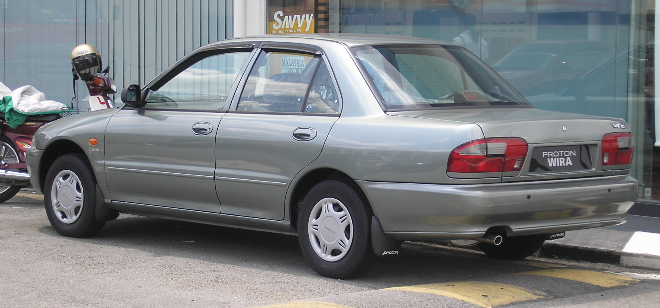 Rear-side shot of an unregistered first generation, second facelift Proton Wira (saloon), in Serdang, Selangor, Malaysia.